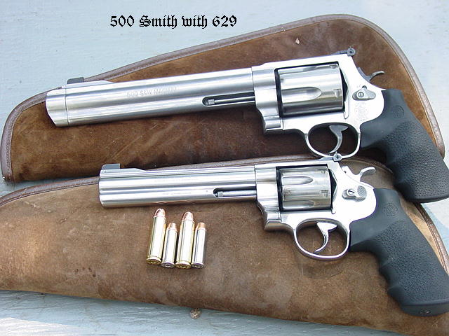 Smith and Wesson model 500 compared to model 629